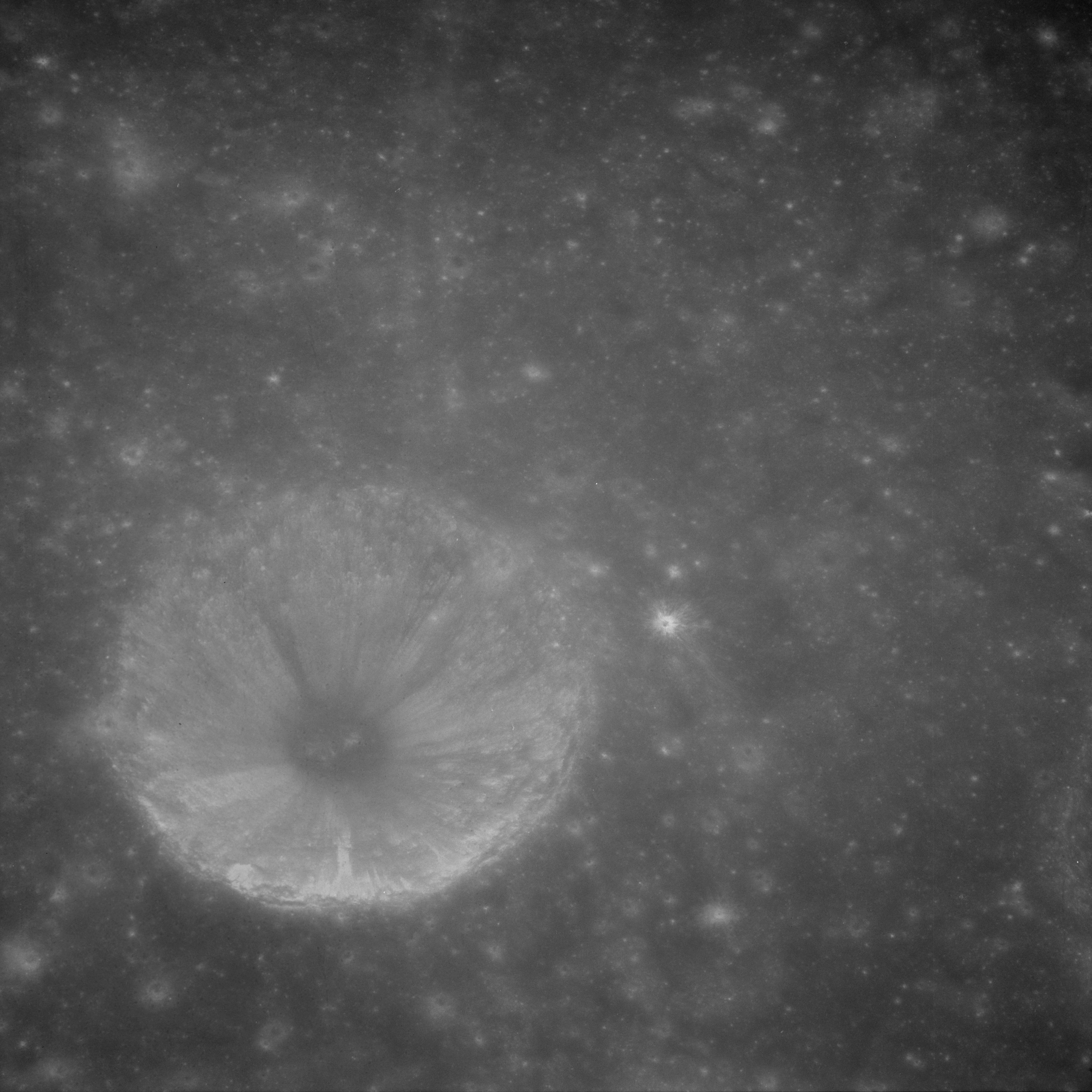 Slightly oblique view of Fox A crater, on the moon.